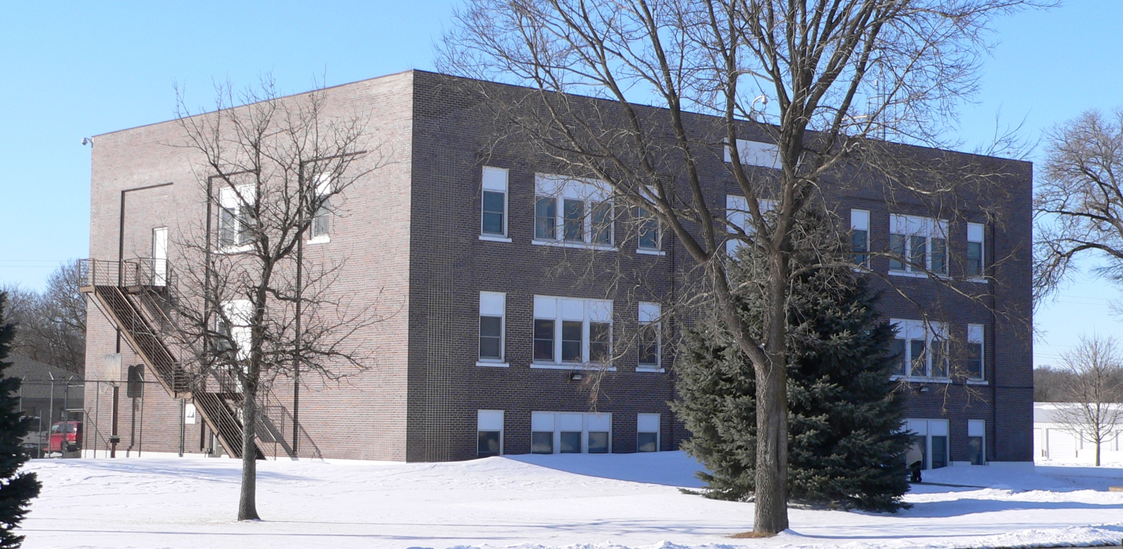 Knox County Courthouse in Center, Nebraska; seen from the southeast. The courthouse was built in 1934, and is listed in the National Register of Historic Places.